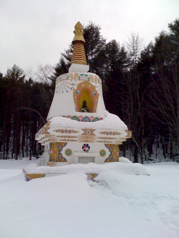 crematorium at karme choling retreat center in vermont, where tibetan lama chögyam trungpa rinpoche was cremated. this stupa like structure is in the upper meadow. picture was taken by laura ross and she released it under this creative commons license.